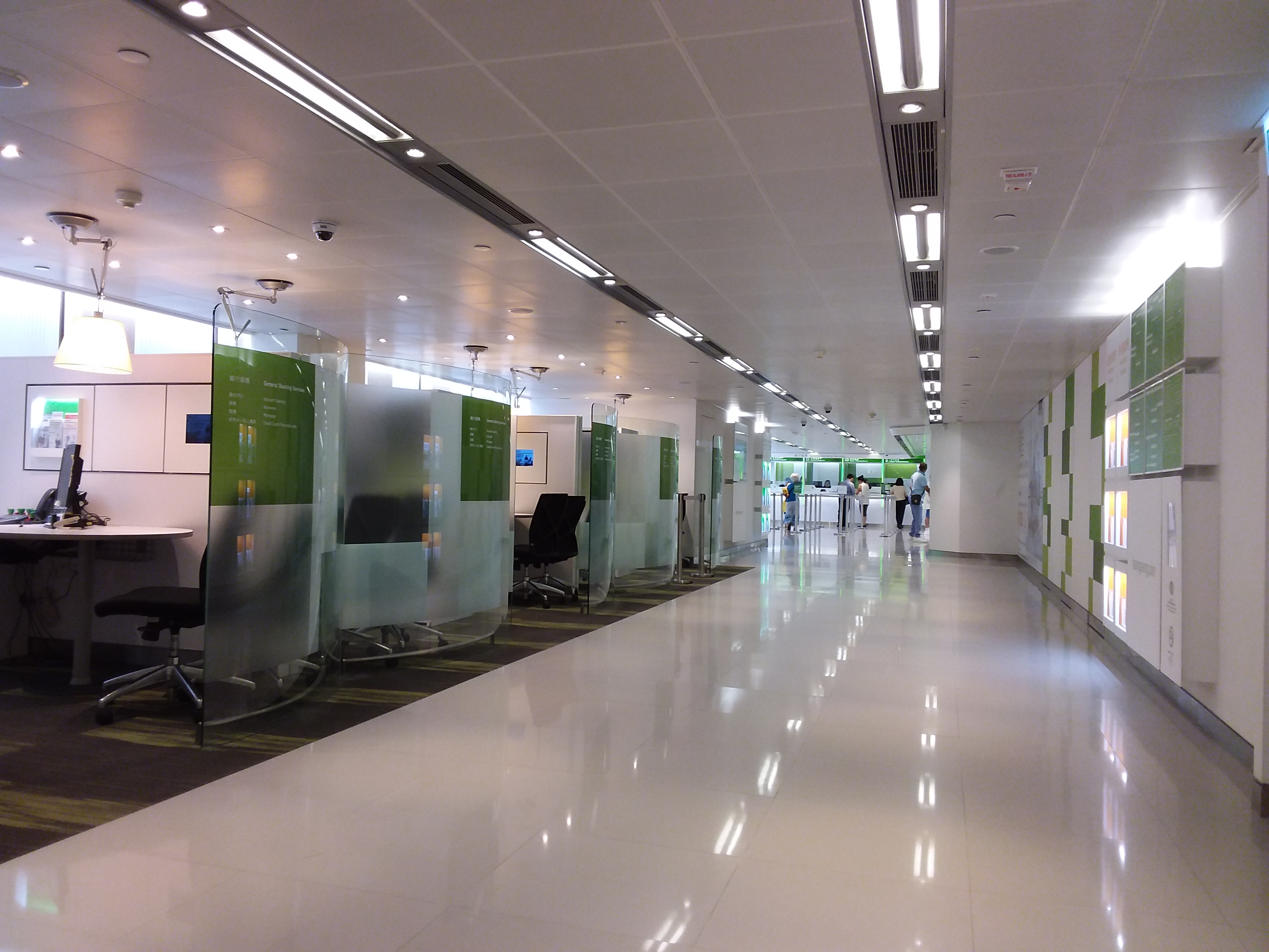 HK 上環 Sheung Wan 東寧大廈 Tung Ning Building 恒生银行 Hang Seng Bank branch in Sept 2018